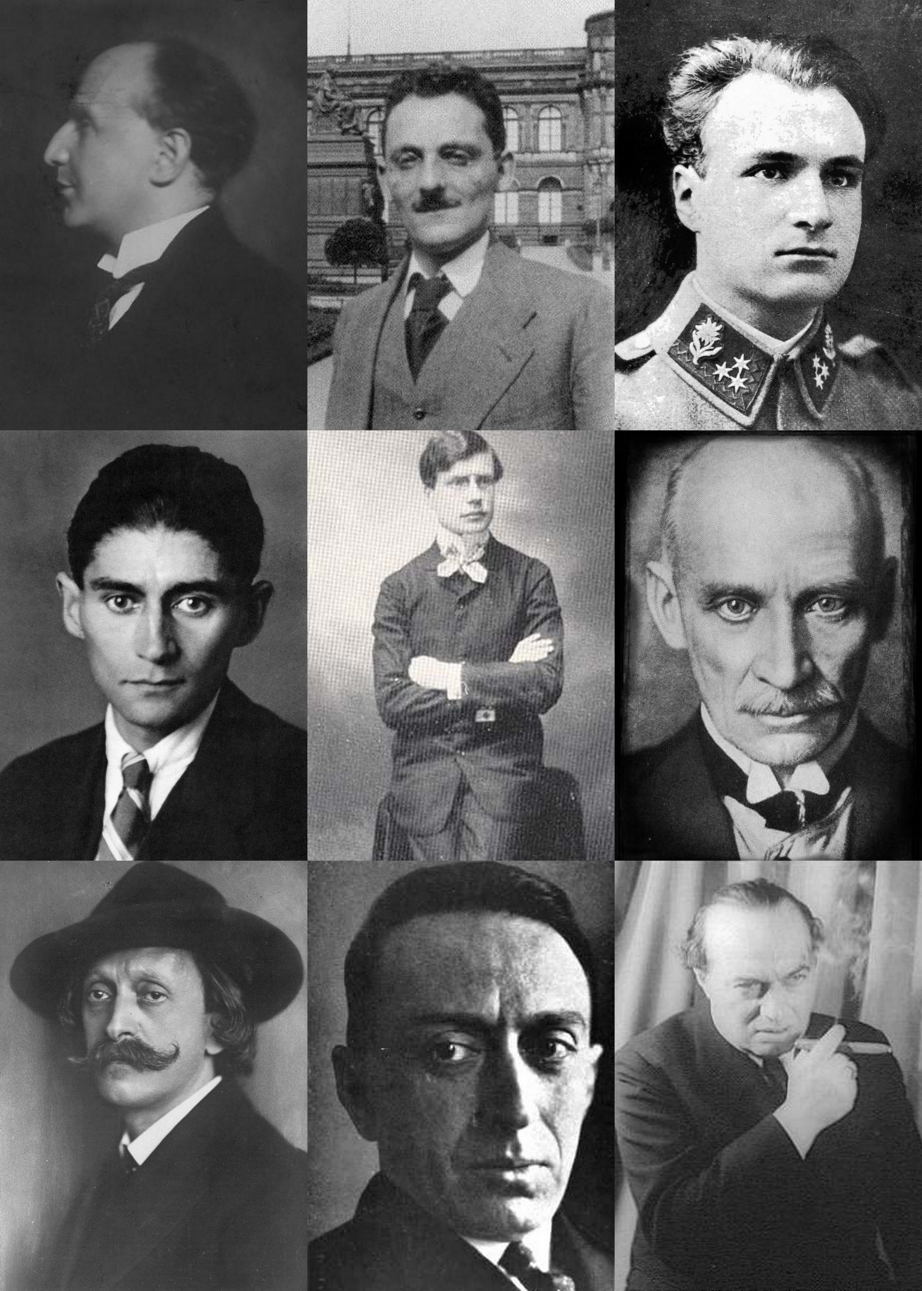 Prague German Literature (Baum, Brod, Janowitz, Kafka, Leppin, Meyrink, Salus, Weiss, Werfel)